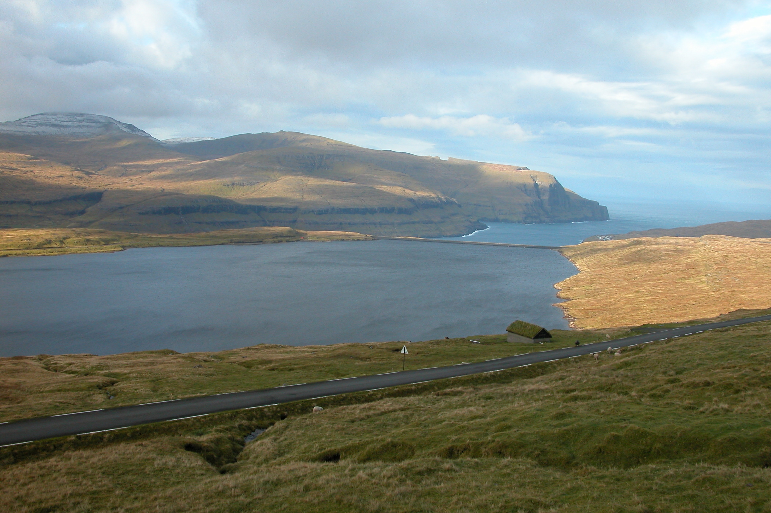 Eiðisvatn, storage lake south of Eiði at Eysturoy, Faroe Islands.